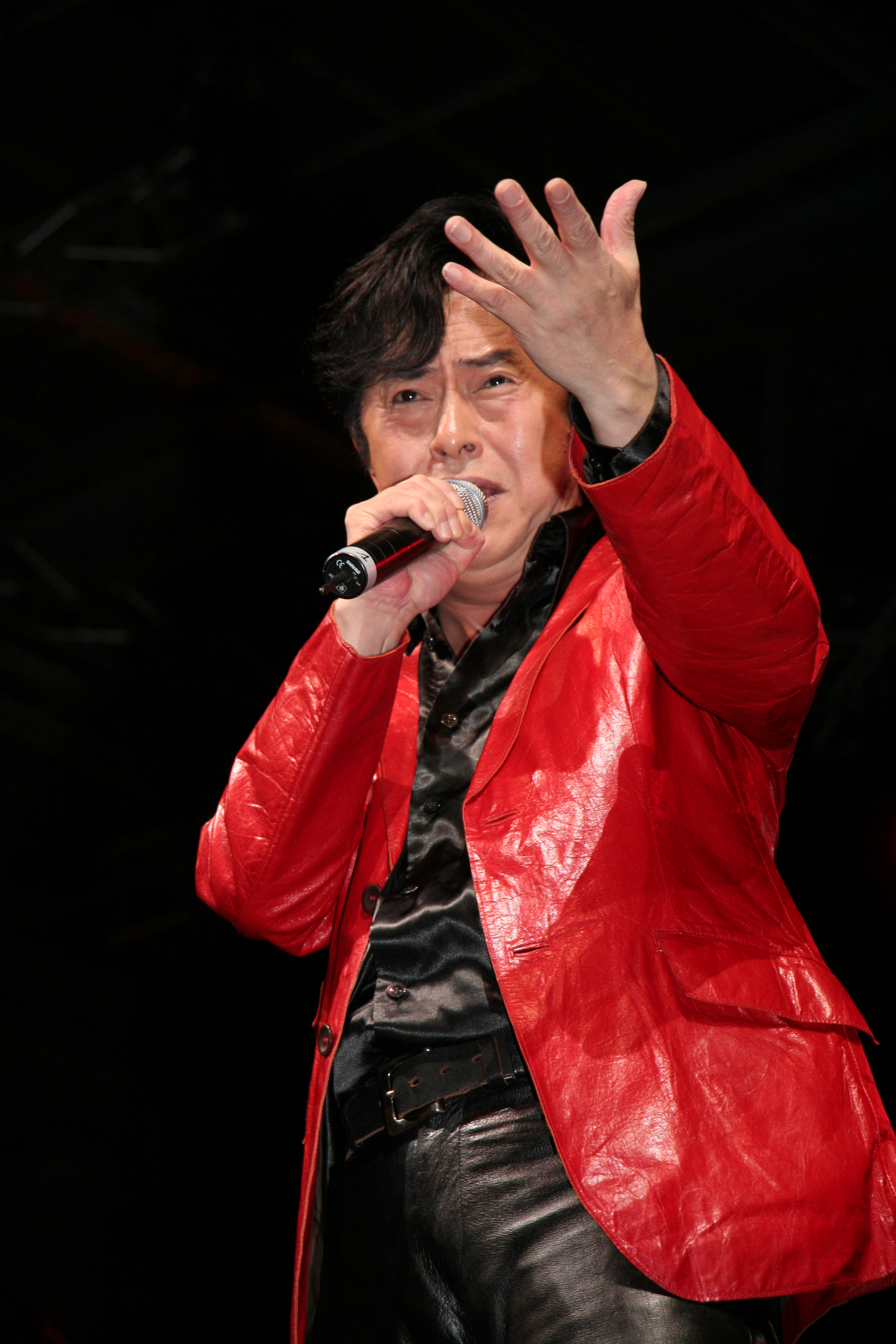 Ichiro Mizuki live at Japan Expo 2007 (Paris, France).